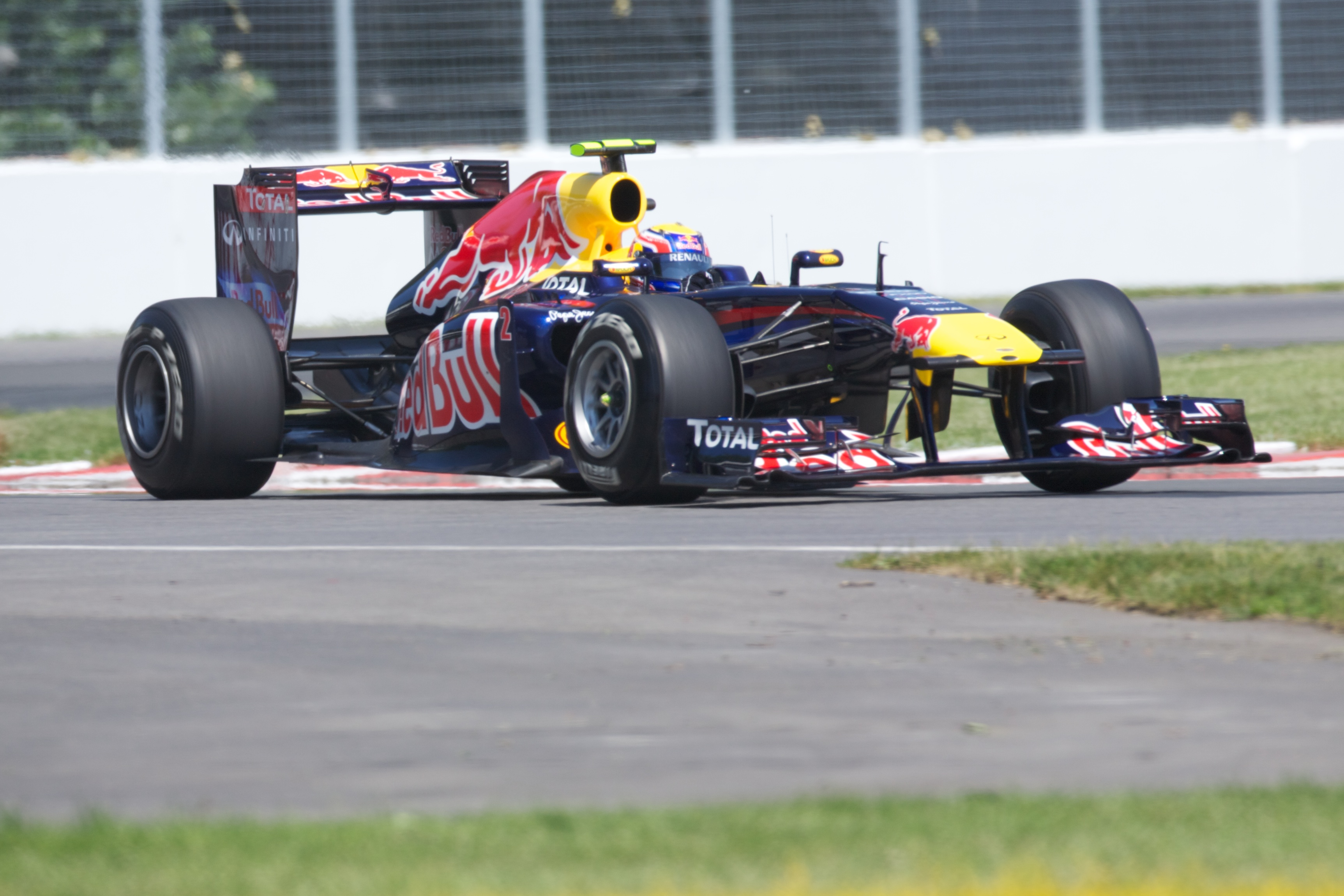 2011 Canadian Grand Prix